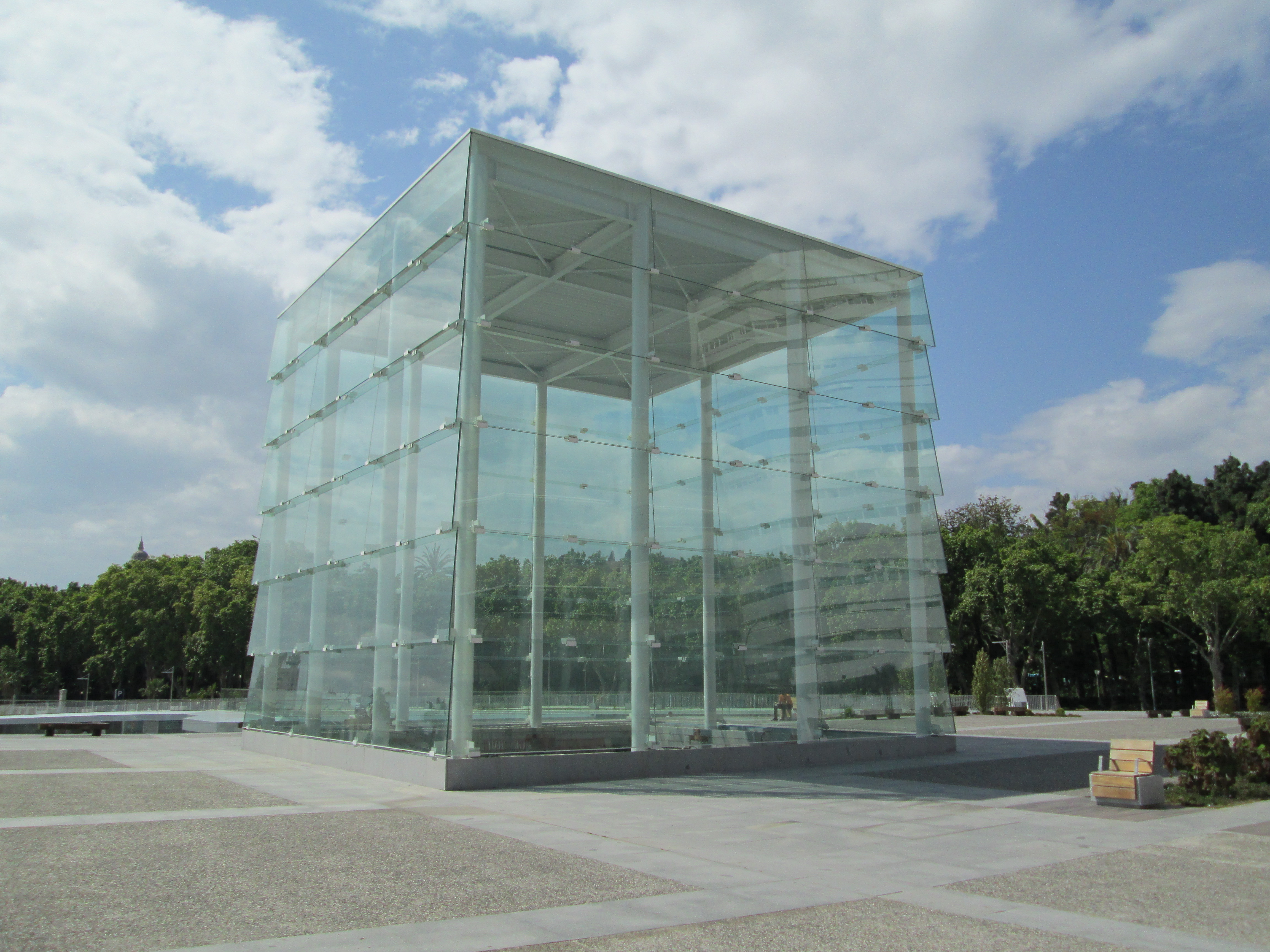 Malaga